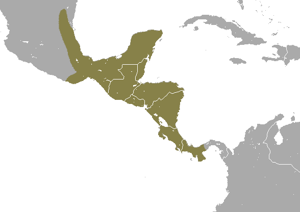 Mexican Mouse Opossum (Marmosa mexicana) range